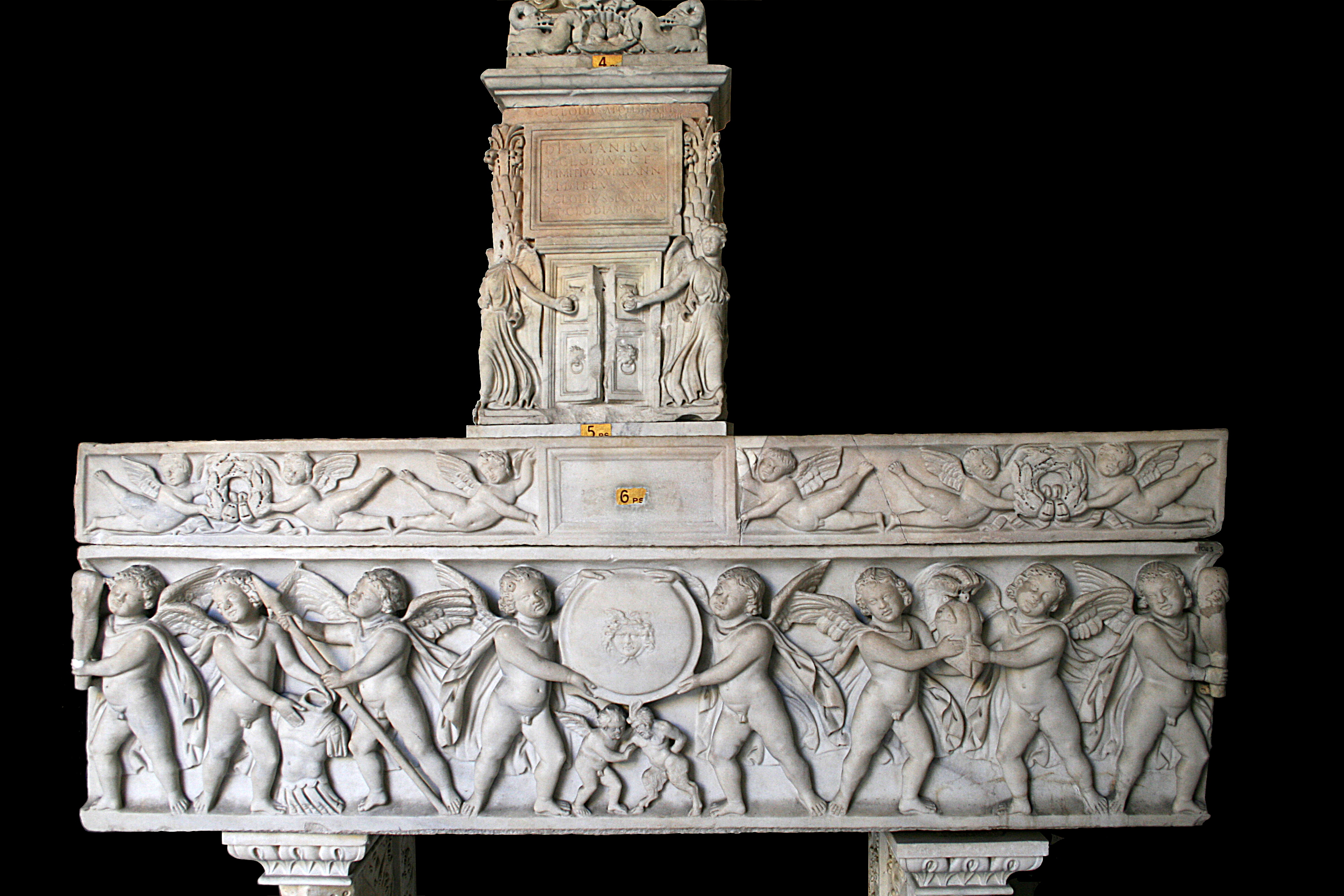 Front panel and cover of the roman sarcophagus adorned with a relief representing some putti. - Cortile Ottagono, Museo Pio-Clementino of the Vatican Museums.